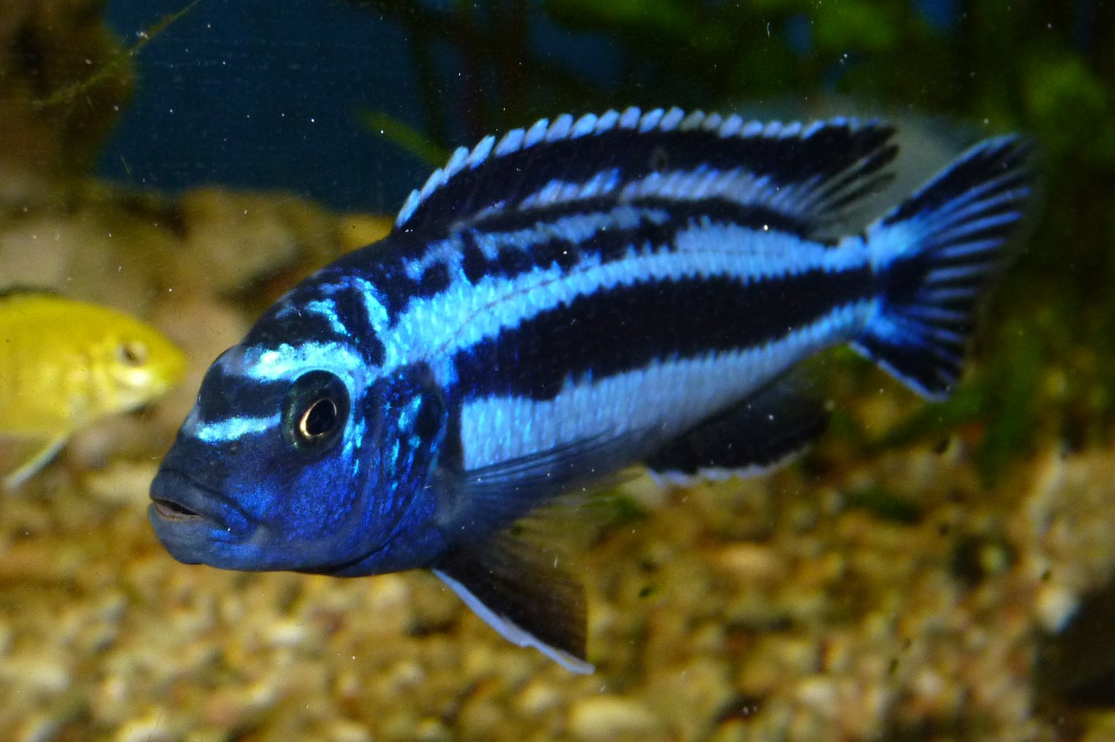 Pseudotropheus cyaneorhabdos from Lake Malawi